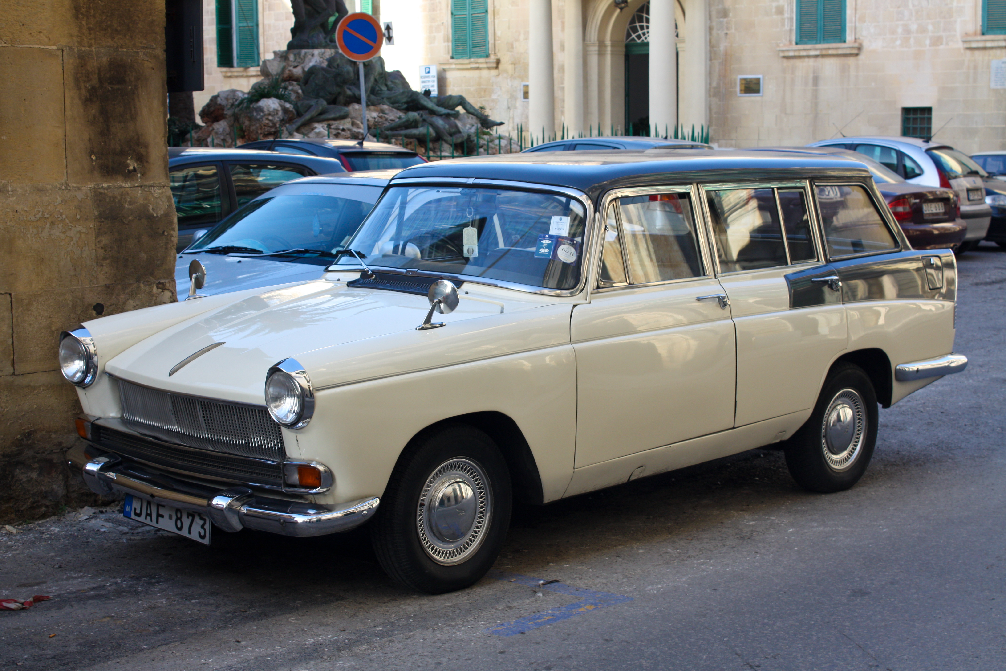 Austin A55 MkII Cambridge Estate in La Valletta